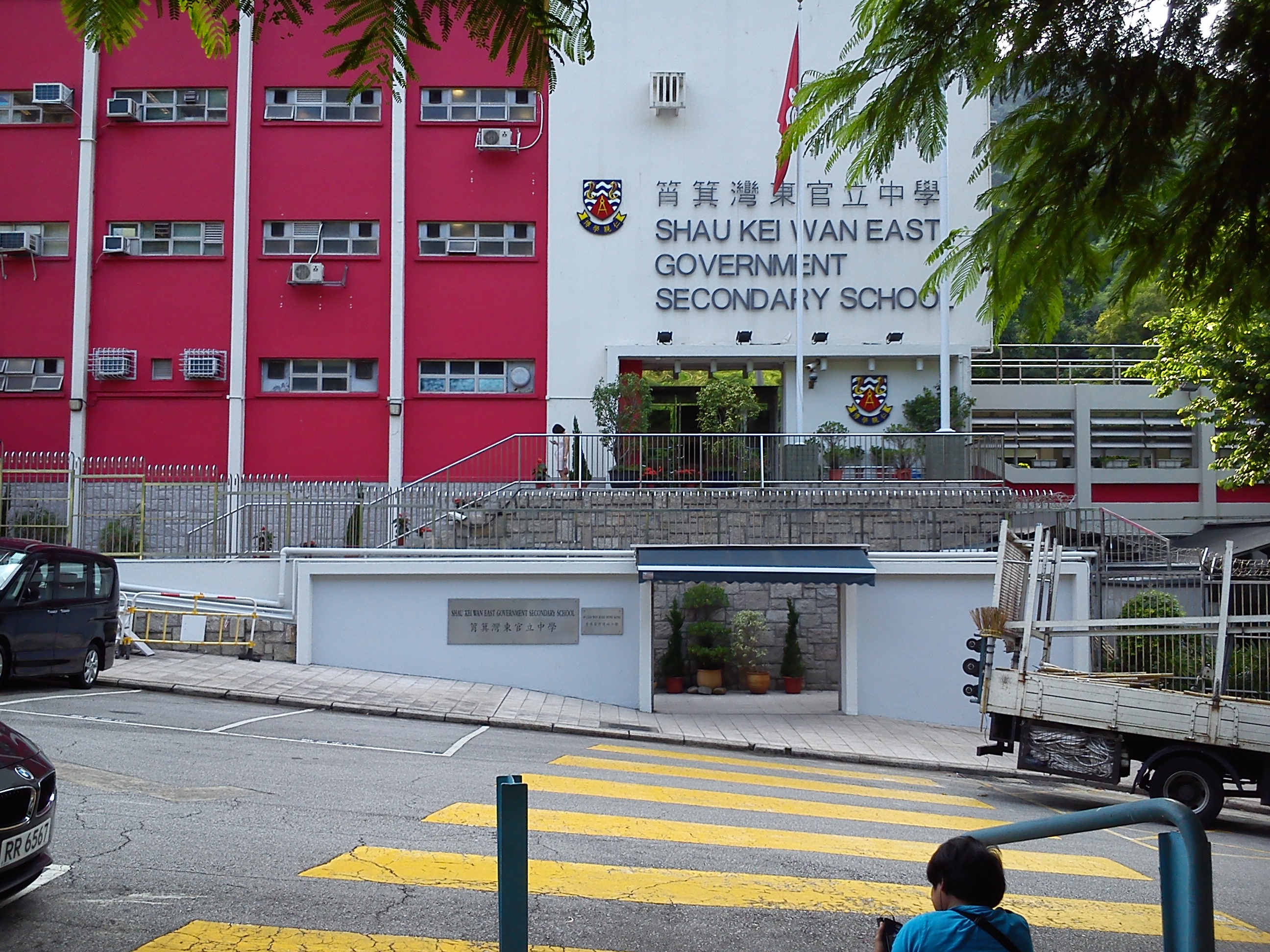 筲箕灣東官立中學正门